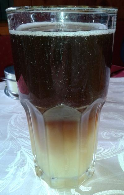 A glass of spezi (cola and orange soft drink mix). The two drinks are not totally mixed yet.